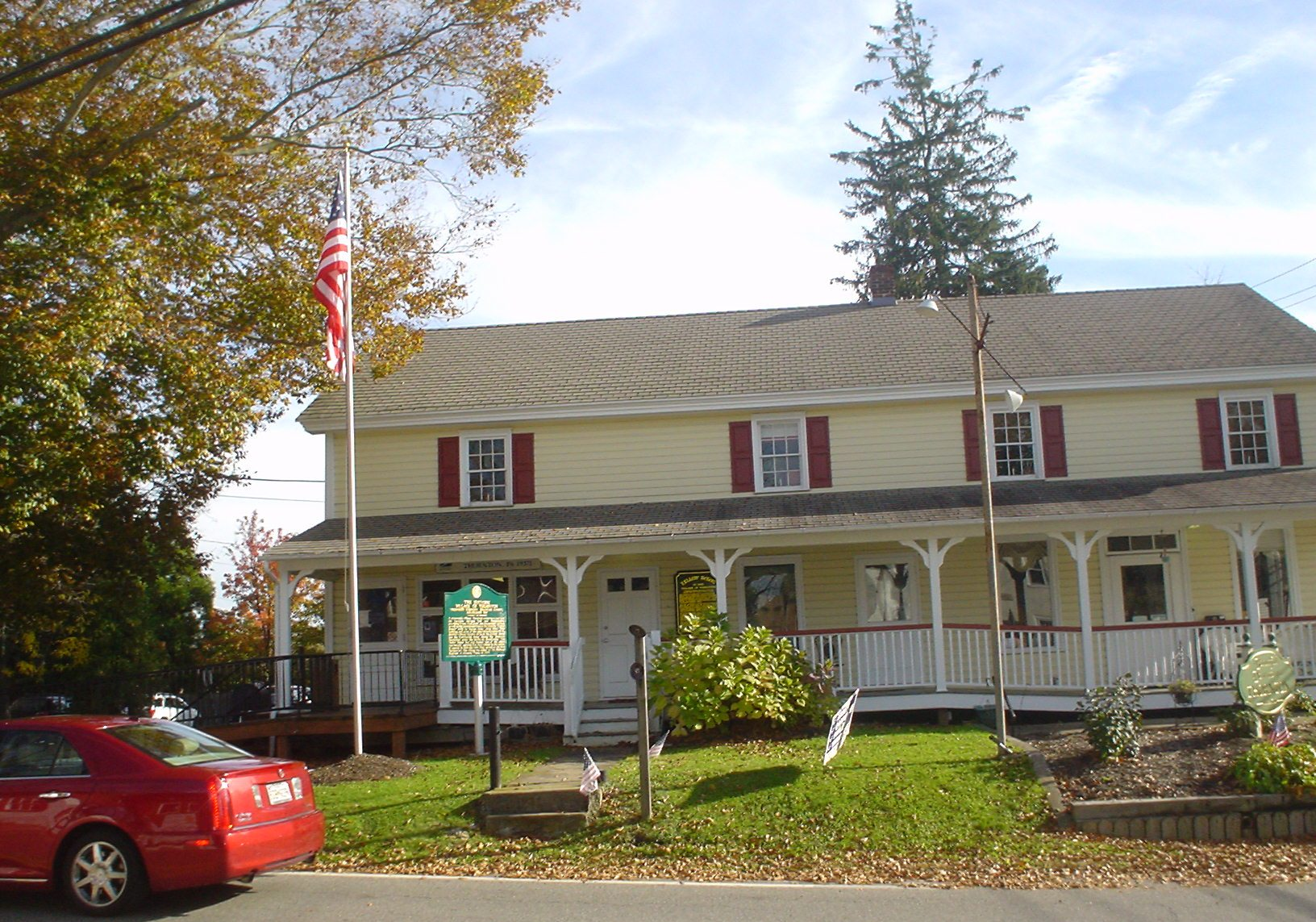 Yellow House, in Thornton, Pa (Thornbury Township, Delco) part of a NRHP district. Claims to be the oldest continuously operating US Post Office (from 1829).